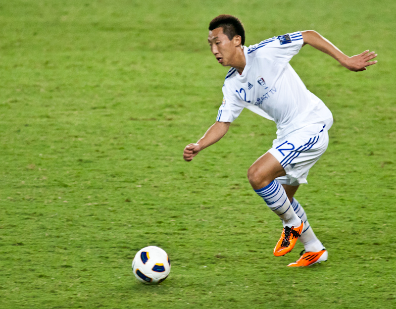 Lee Hyun-Jin playing for Suwon Bluewings in the 2011 Asian Champions League against Sydney FC in Sydney, Australia.